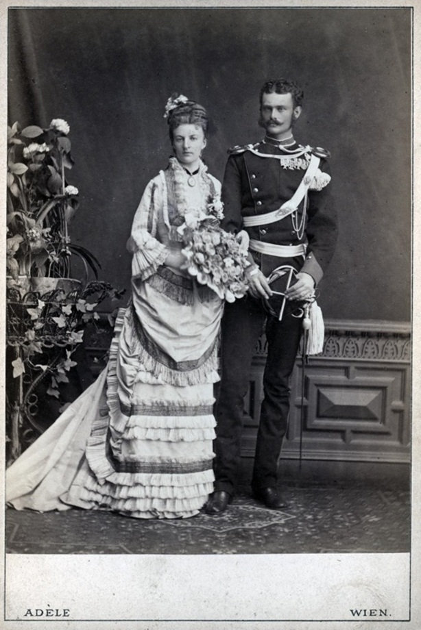 Bildnis in Uniform, gemeinsam mit seiner Braut Amalie, Prinzessin von Sachsen-Coburg-Gotha.